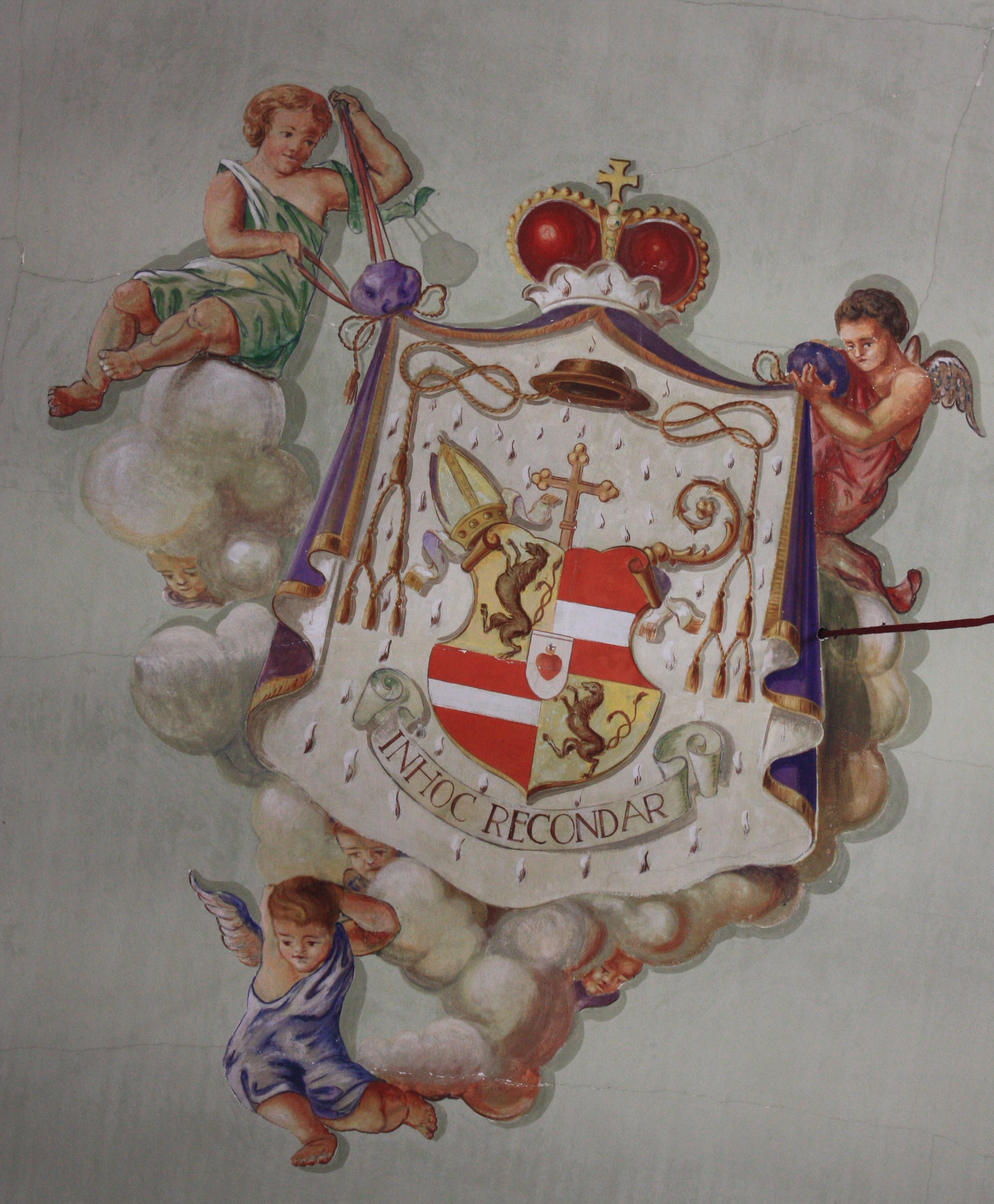 Subsidiary church Saint Andrew - Coat of arms of Josef Kahn Locality: Döllach Community:Großkirchheim